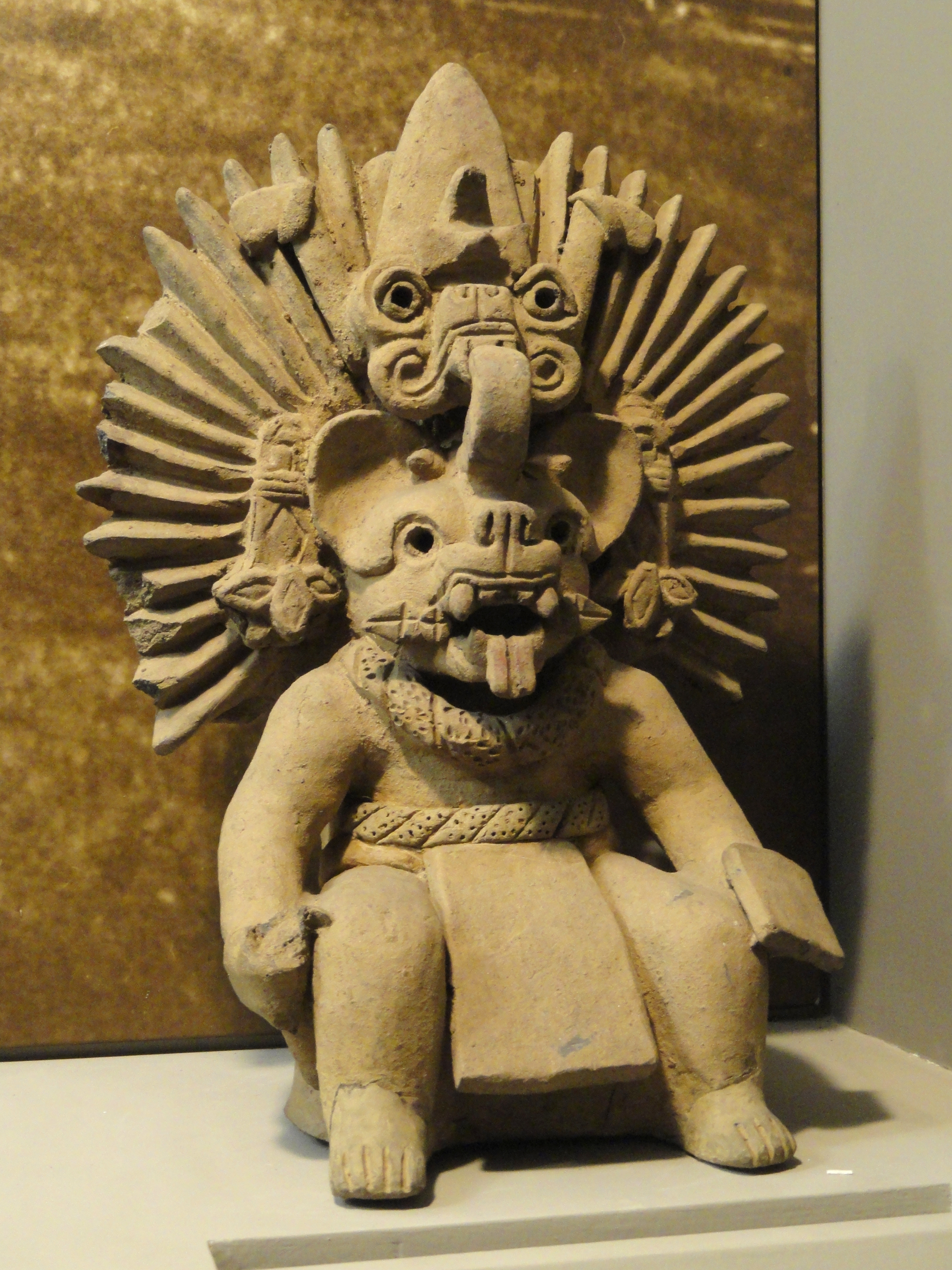 Exhibit in the Mesoamerican collection of the American Museum of Natural History, Manhattan, New York City, New York, USA.